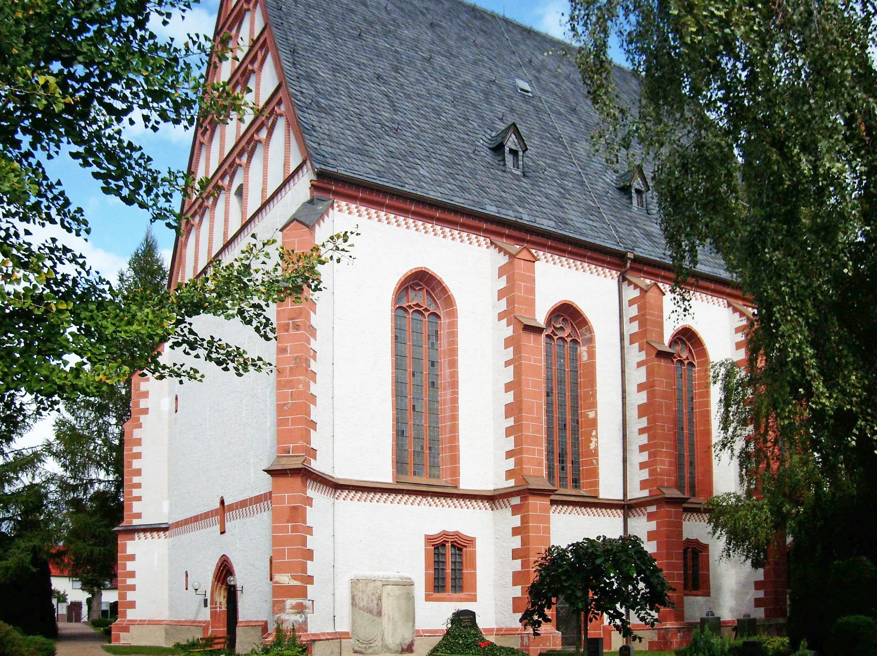 St. Mary's Church in Rötha (Leipzig district, Saxony)